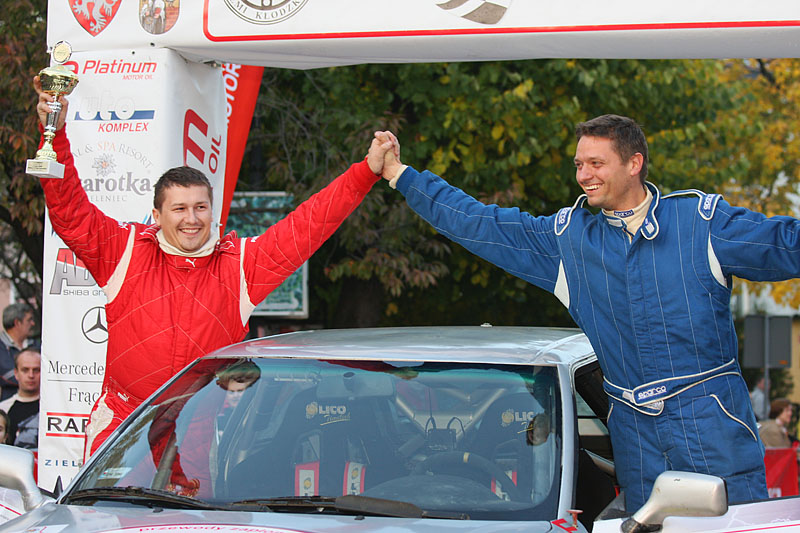 Rajd Dolnośląski 2008, Marek Kotwica and Krzysztof Możyszek, Audi S2